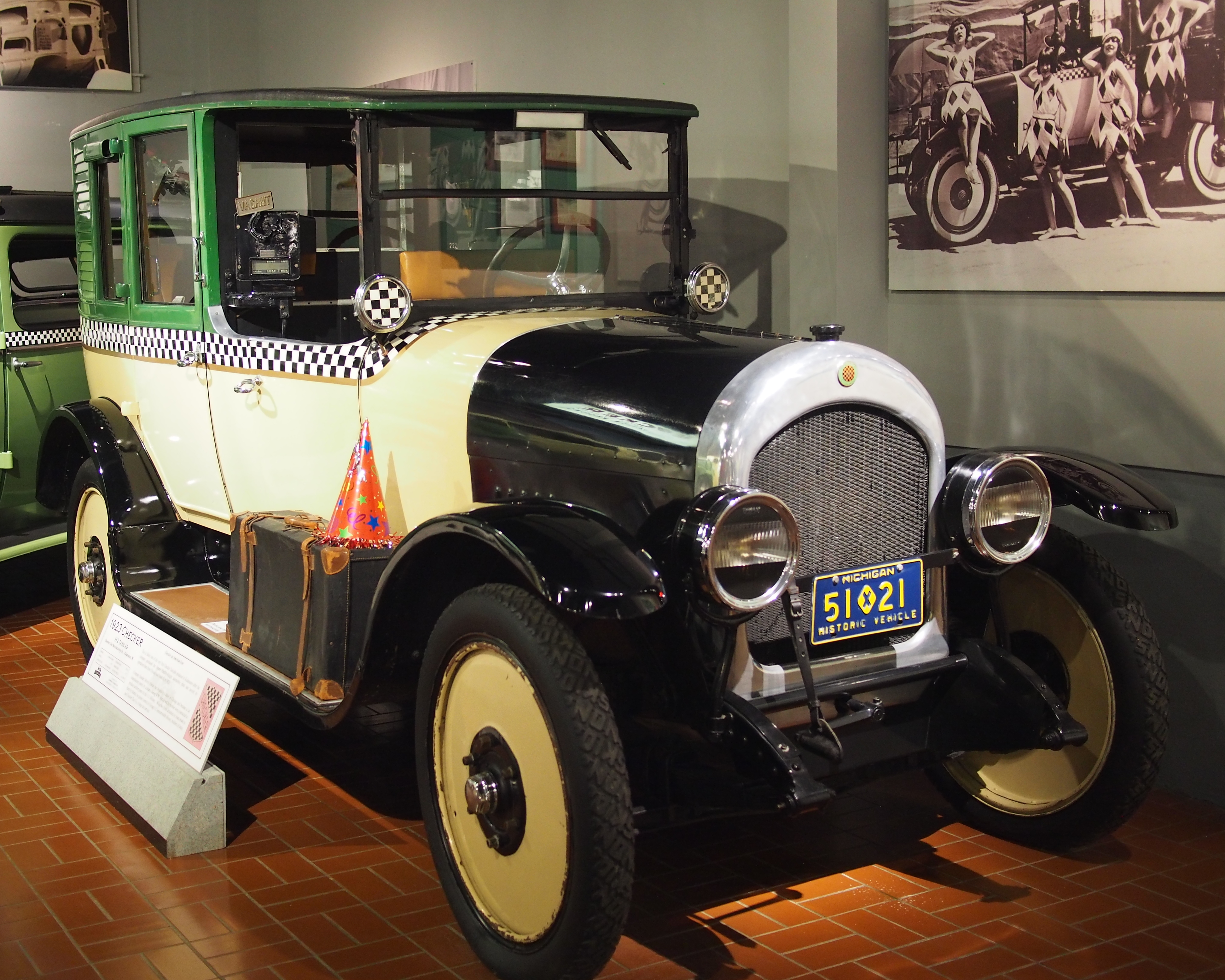 1923 Checker Model H-2 taxicab"This is likely one of the very first Checker Taxicabs produced in Kalamazoo" Gilmore Car Museum